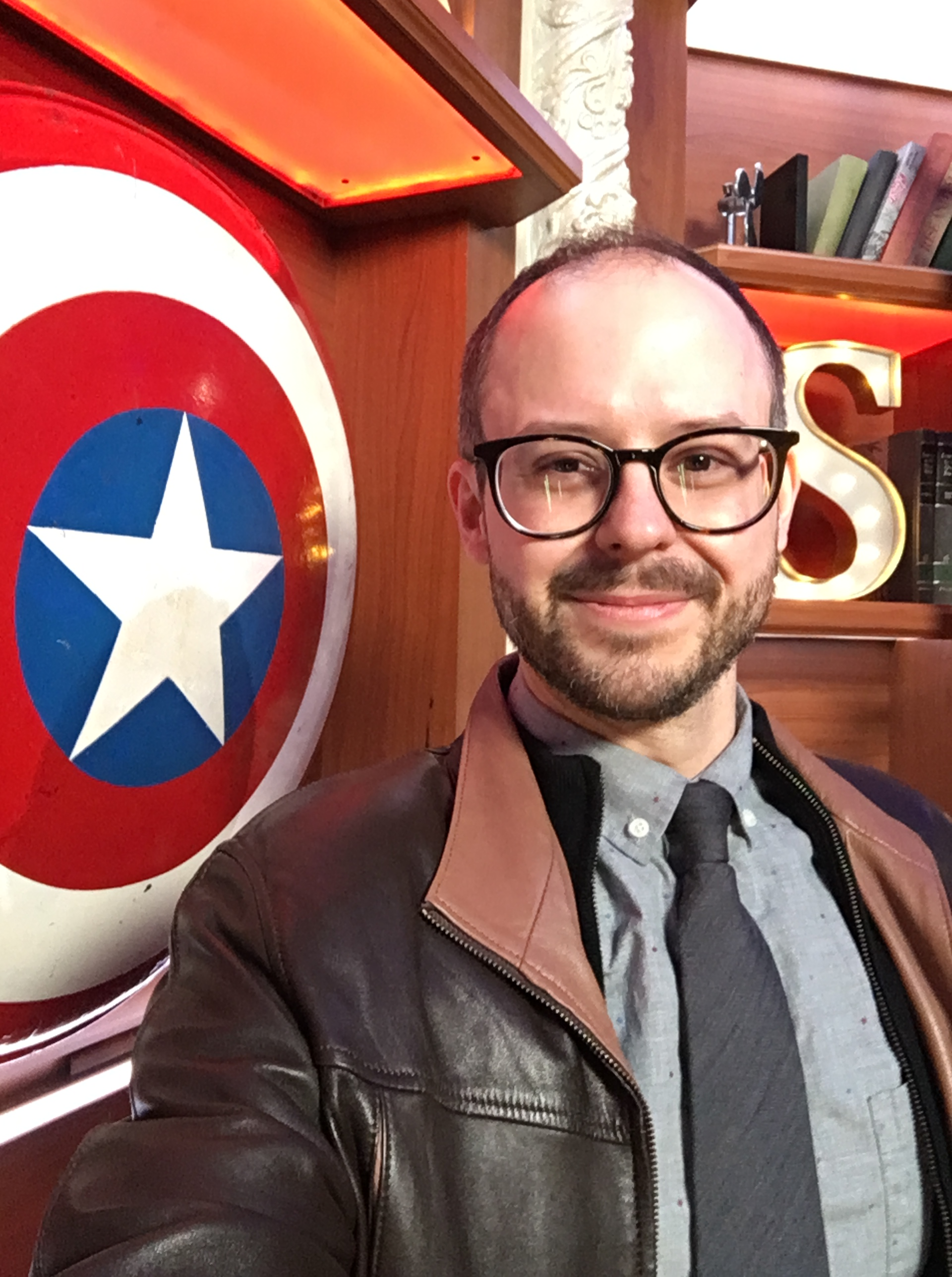 Photograph of Daniel Kibblesmith on the set of The Late Show